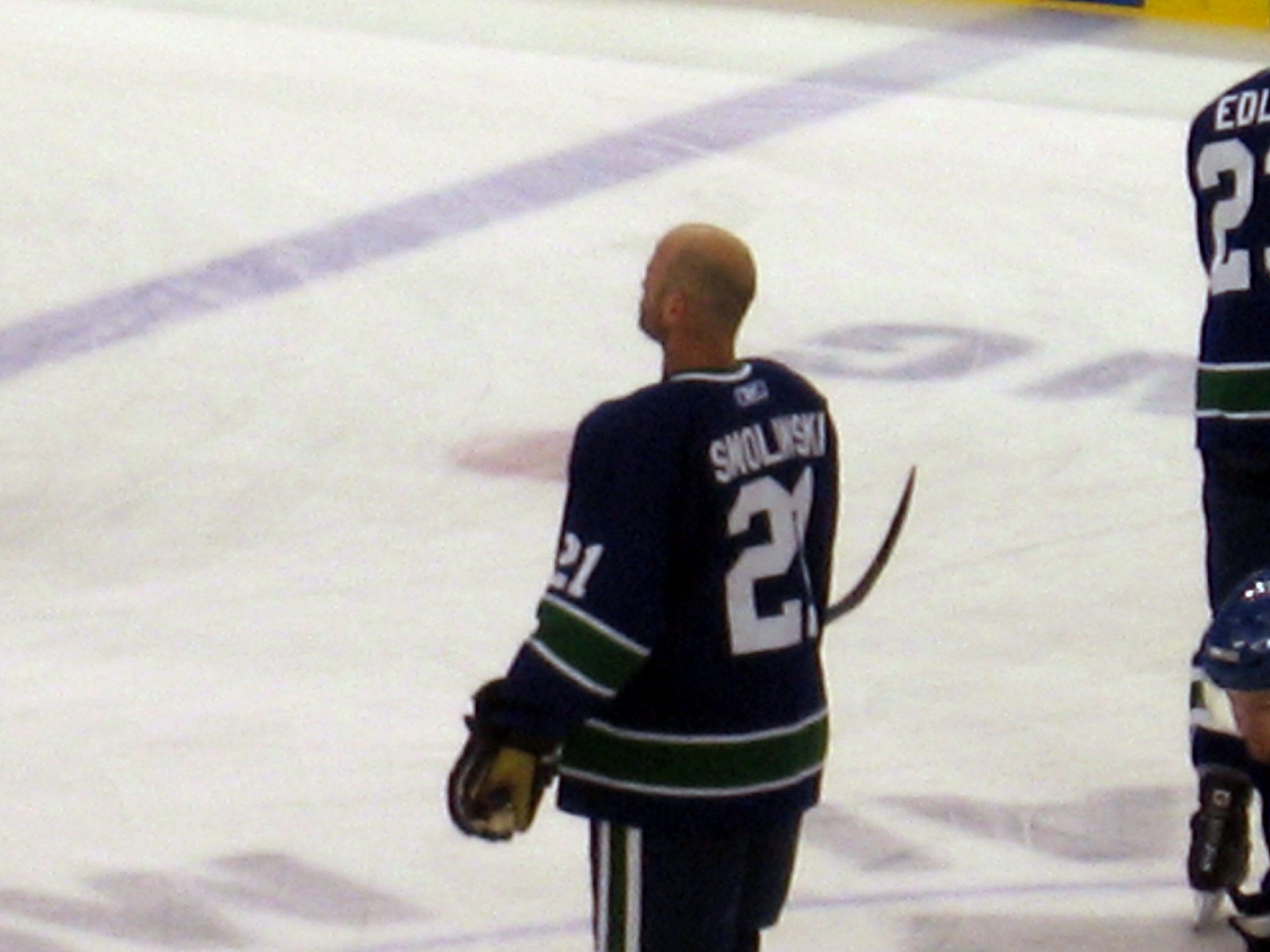 Vancouver Canuck's Bryan Smolinski warming up at GM Place before playing the Anaheim Ducks in a playoff game. Photo taken May 1st, 2007.